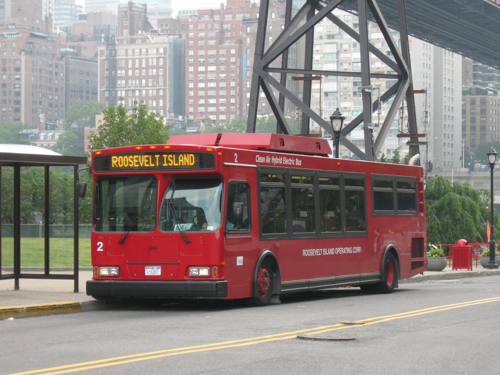 Roosevelt Island Red bus #2 sits at the Roosevelt Island Tramway terminal on Roosevelt Island.